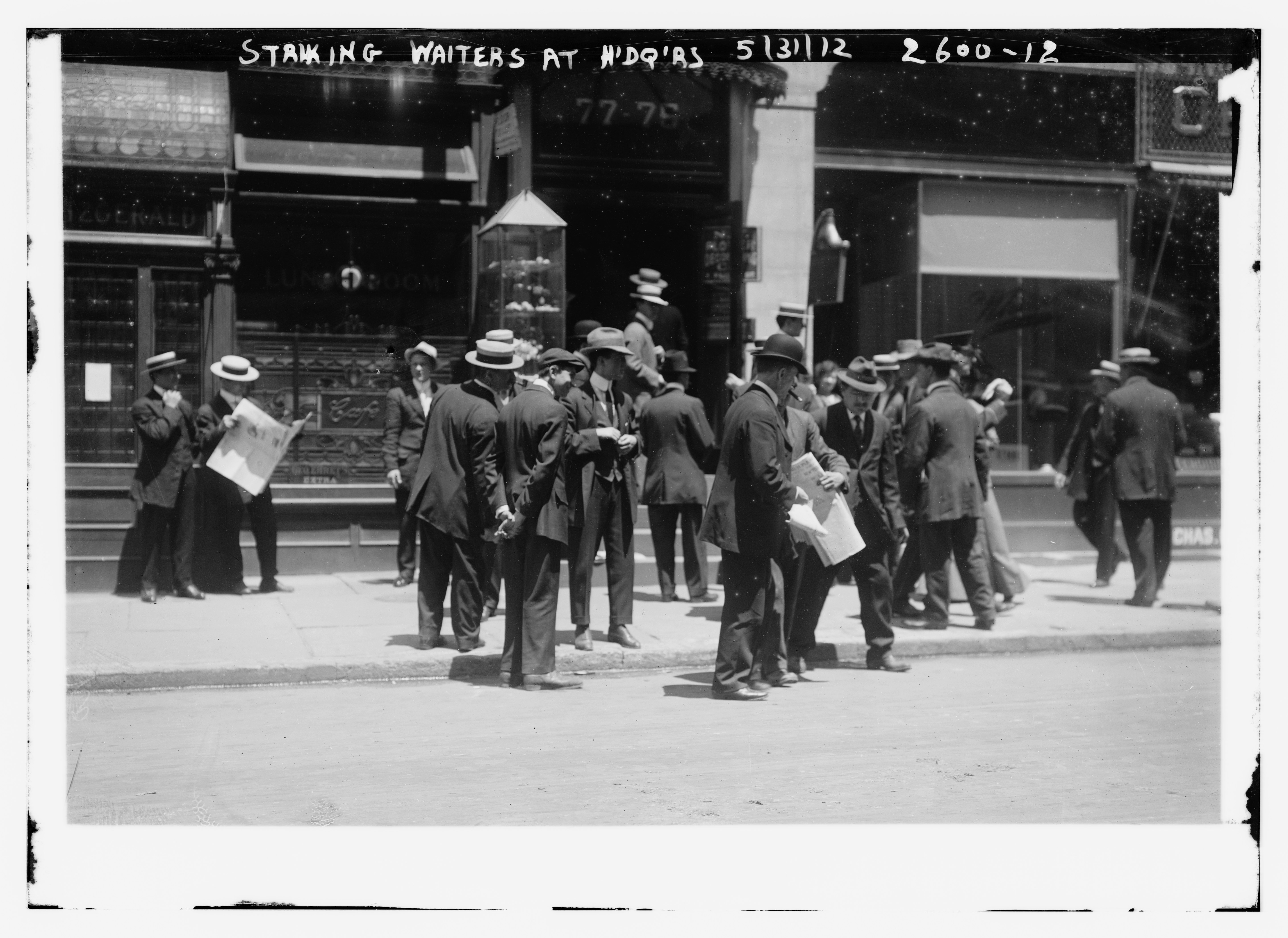 Title: Striking waiters at Hdqrts. Abstract/medium: 1 negative : glass ; 5 x 7 in. or smaller.